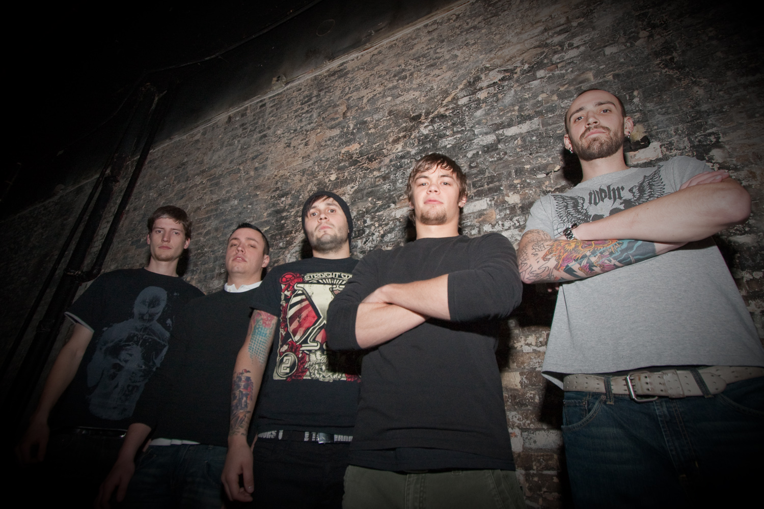 After the Burial @ Station 4, St. Paul, Minn; 2009/03/07.